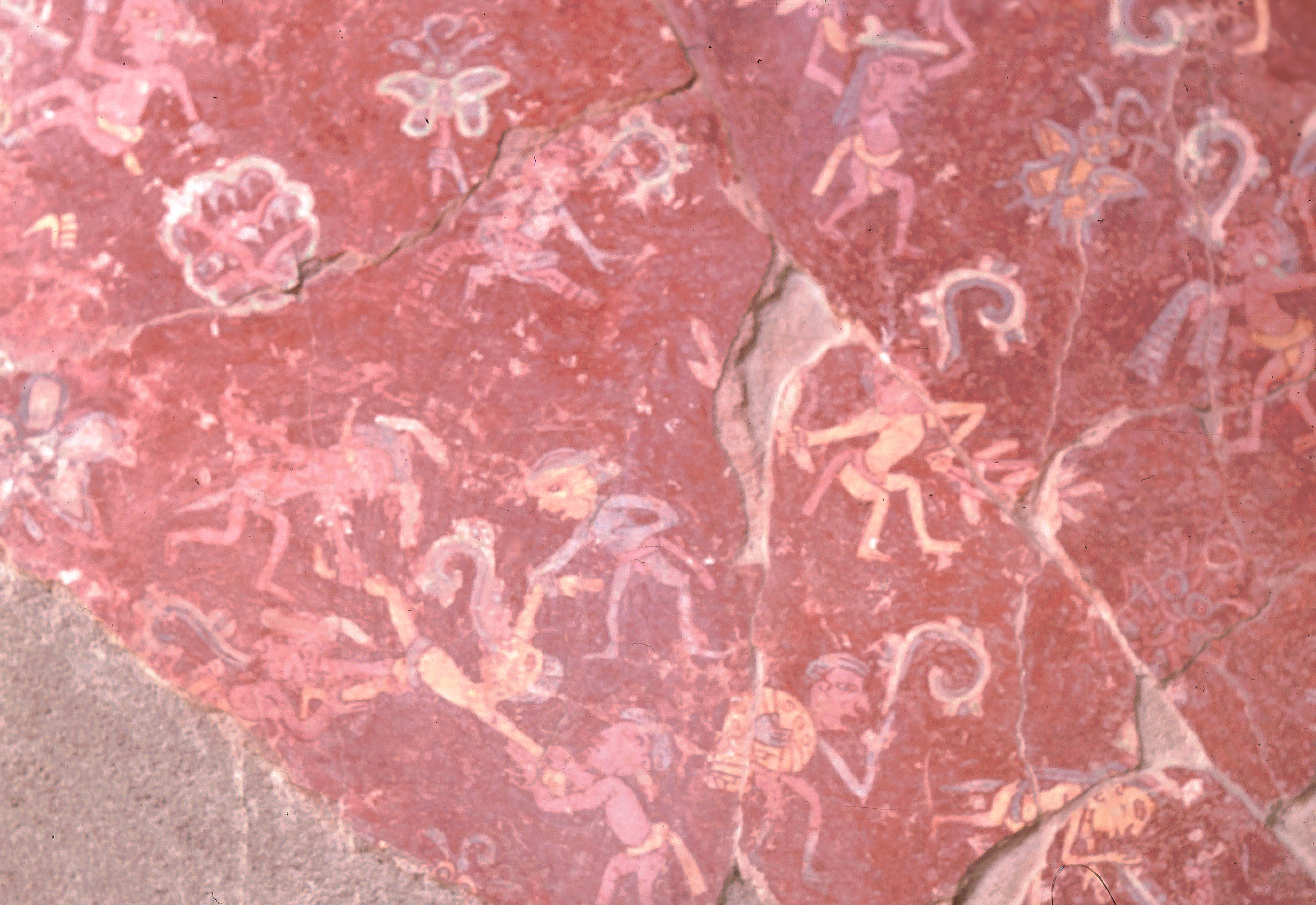 Teotihuacan, Mexico, Tepantitla group: Tlalocan mural.